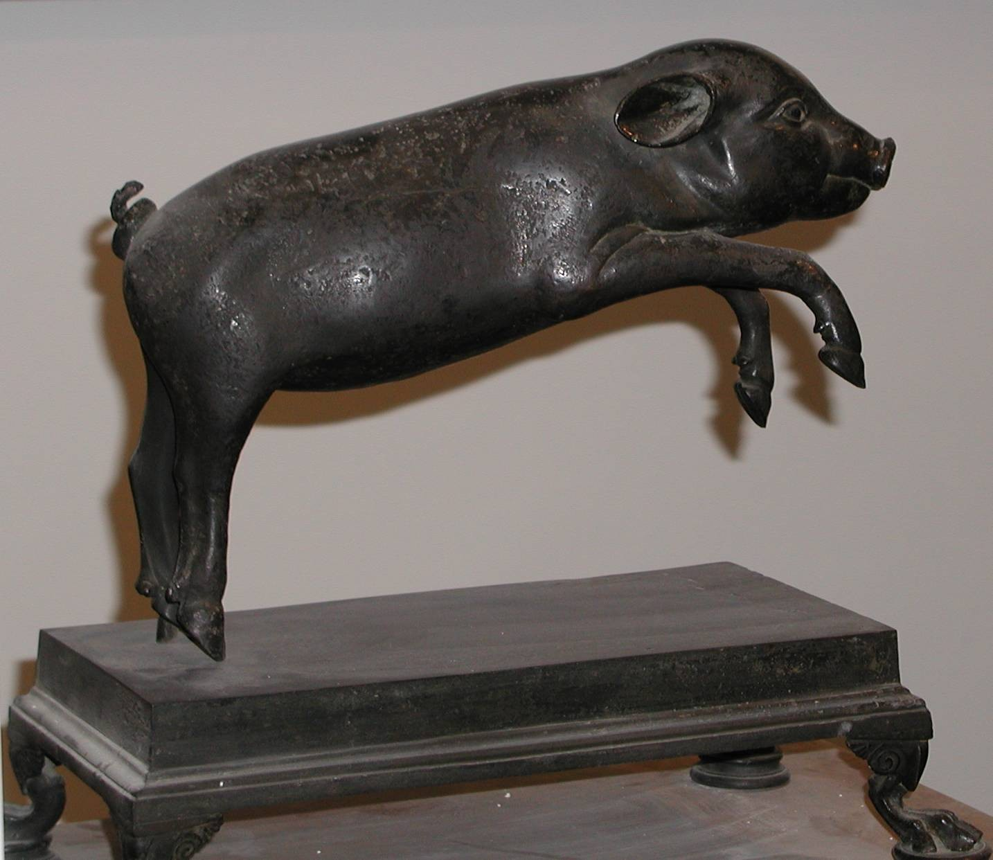 my image of herculaneum pig